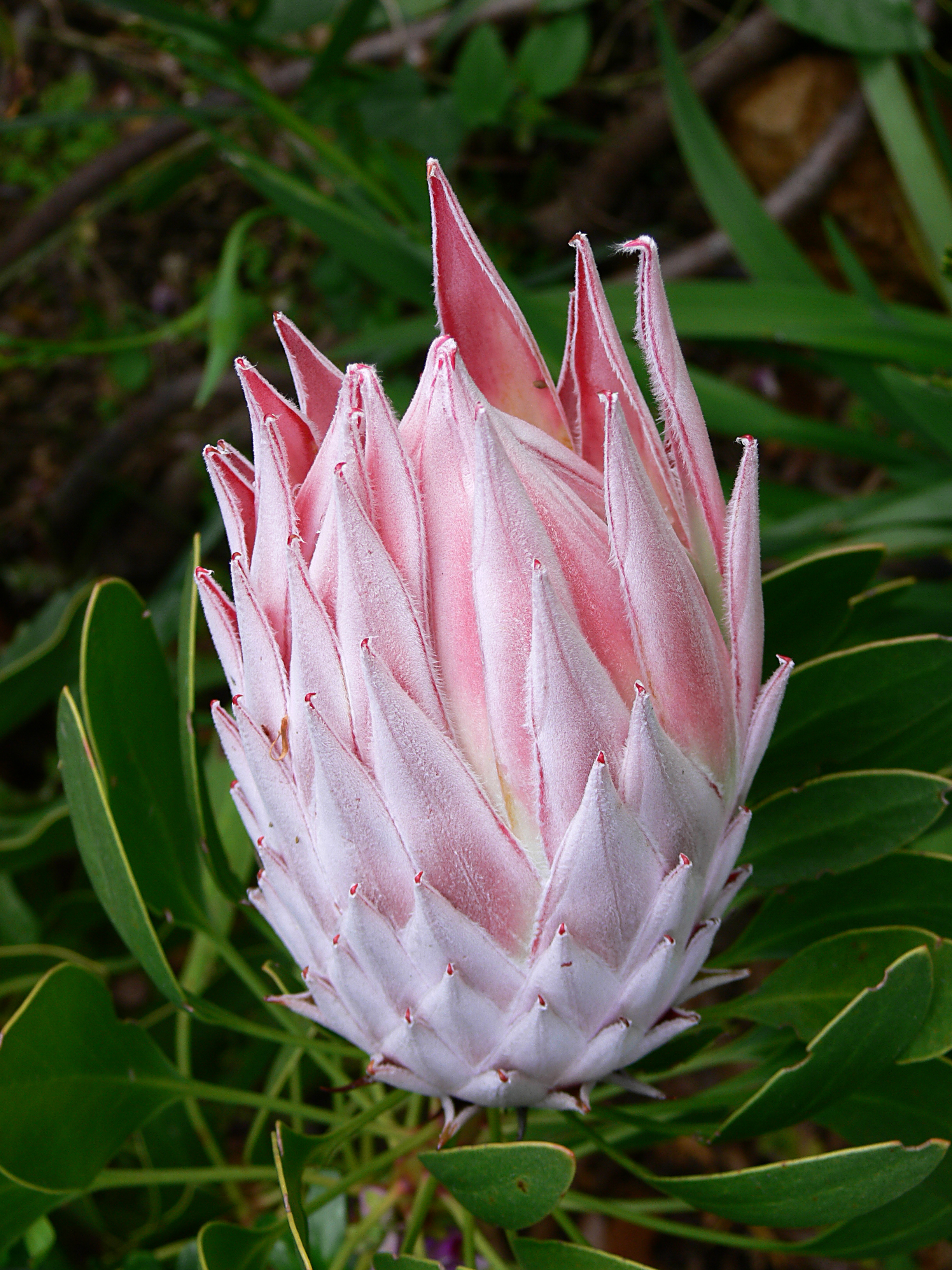 Kingprotea (P. cynaroides) Bud, Western Cape, South Africa